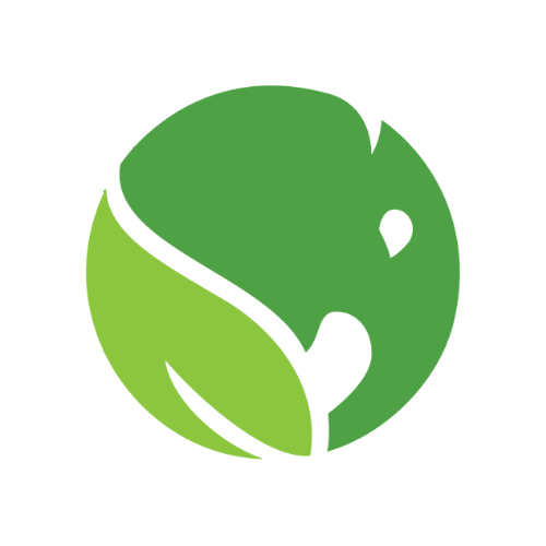 The logo of Kurdish animal rights organization Kurdistan Vegans. کوردی: لۆگۆی ڕێکخراوی کوردستان ڤیگنز.